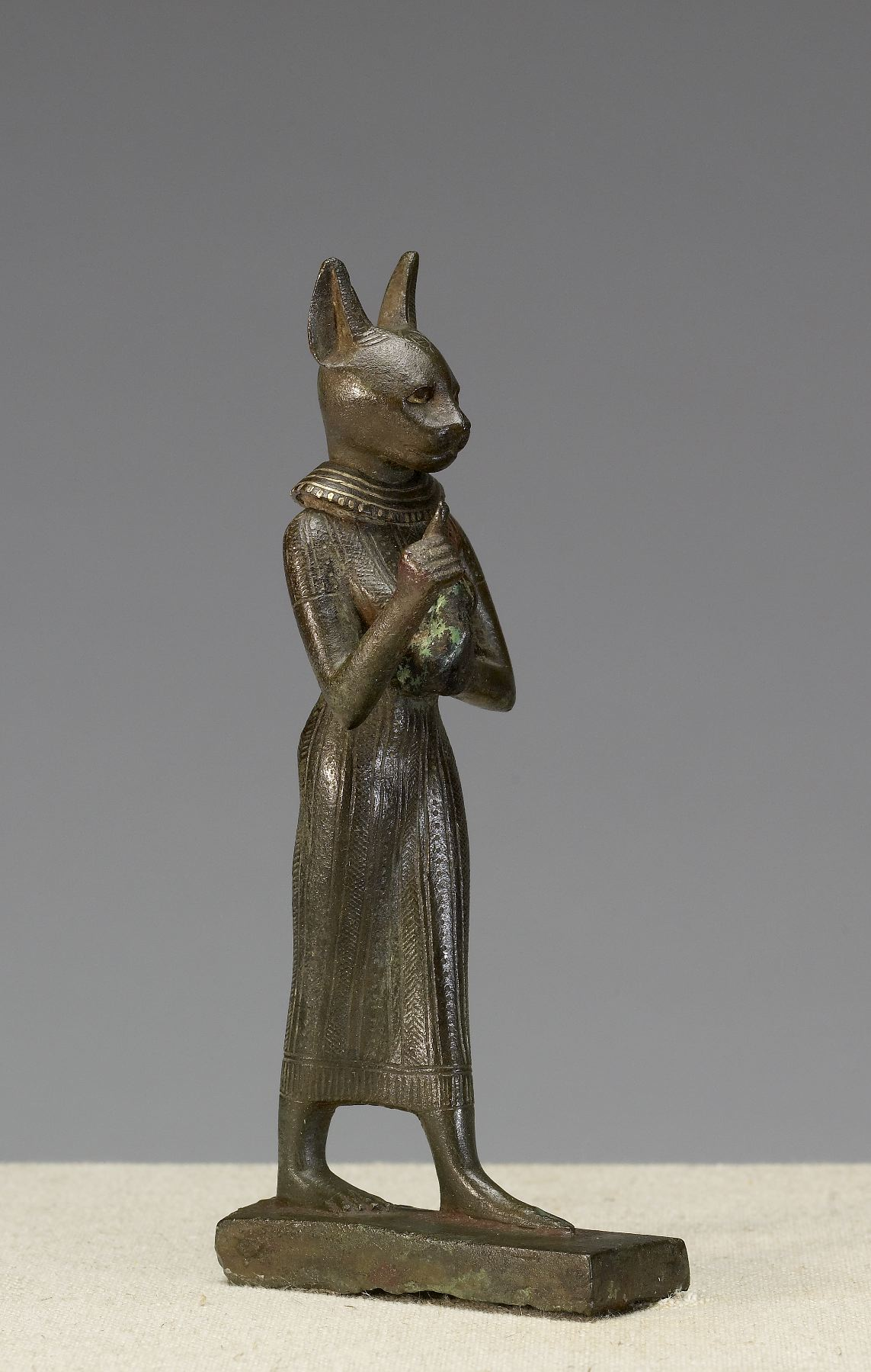 Bastet, often represented with the head of a lion or a cat, was a goddess both of joy and pleasure and of warfare. Here, she holds a protective ritual instrument, an usekh-collar surmounted by a feline head with a sun-disk.